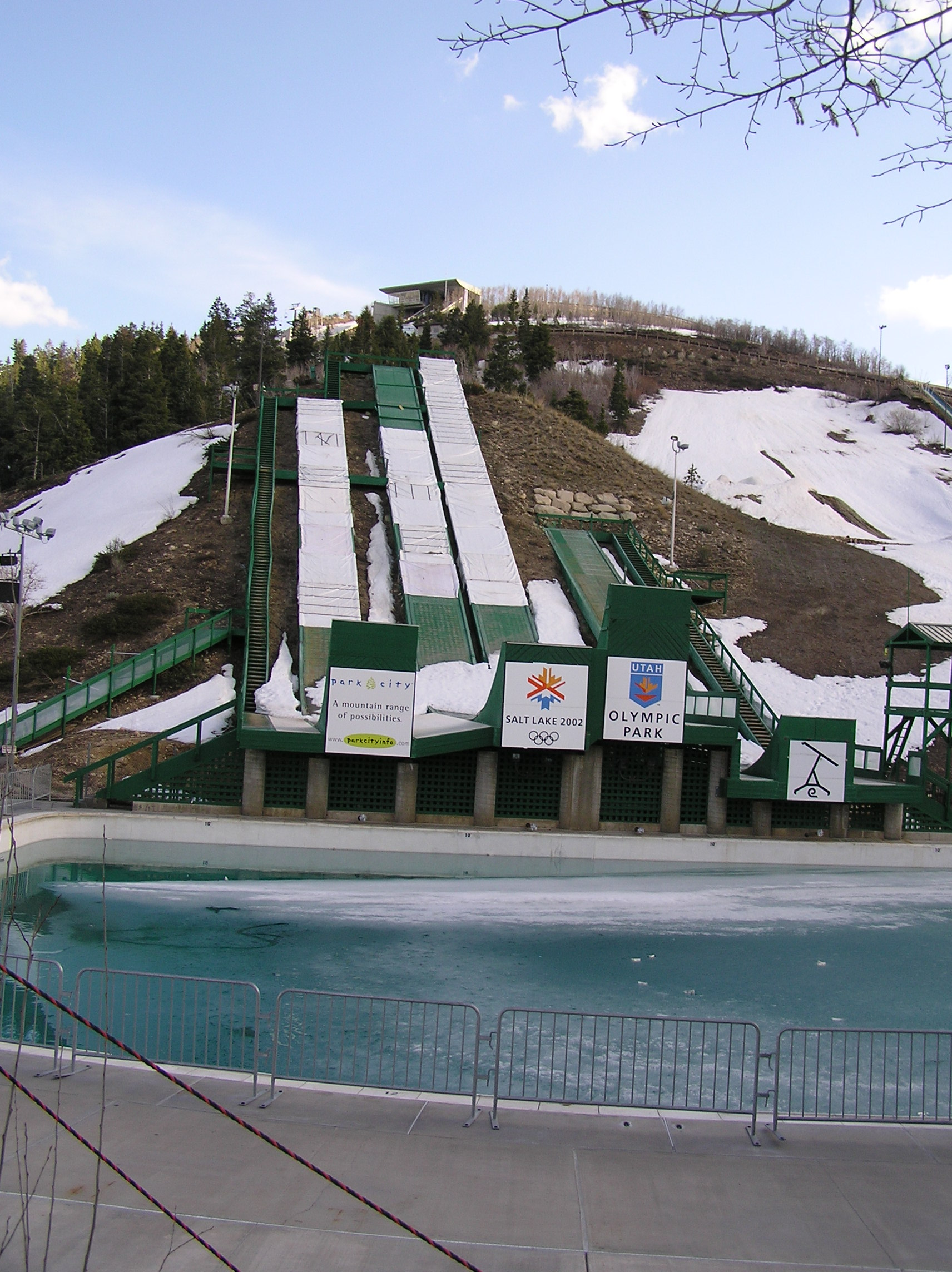 Aerials practice ramps, Utah Olympic Park.